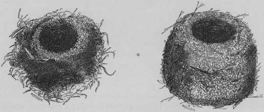 "Clitonyx albicapilla. Clitonyz ochrocephala.". White-head (Mohoua albicilla) and Yellow-head (Mohoua ochrocephala) nests.